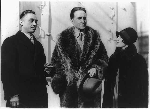 French artist Marcel Duchamp (1887-1968) in between Leon Hartt and Mrs. Hartt